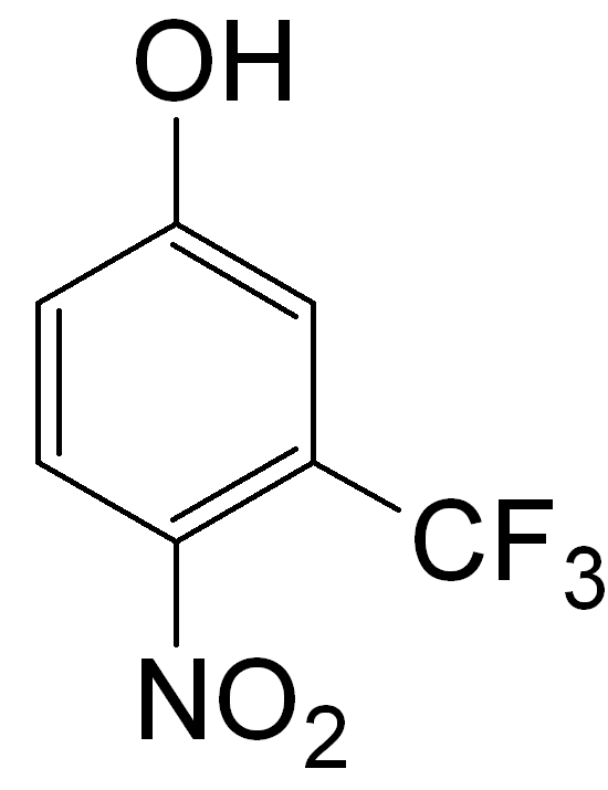 TFM (piscicide)